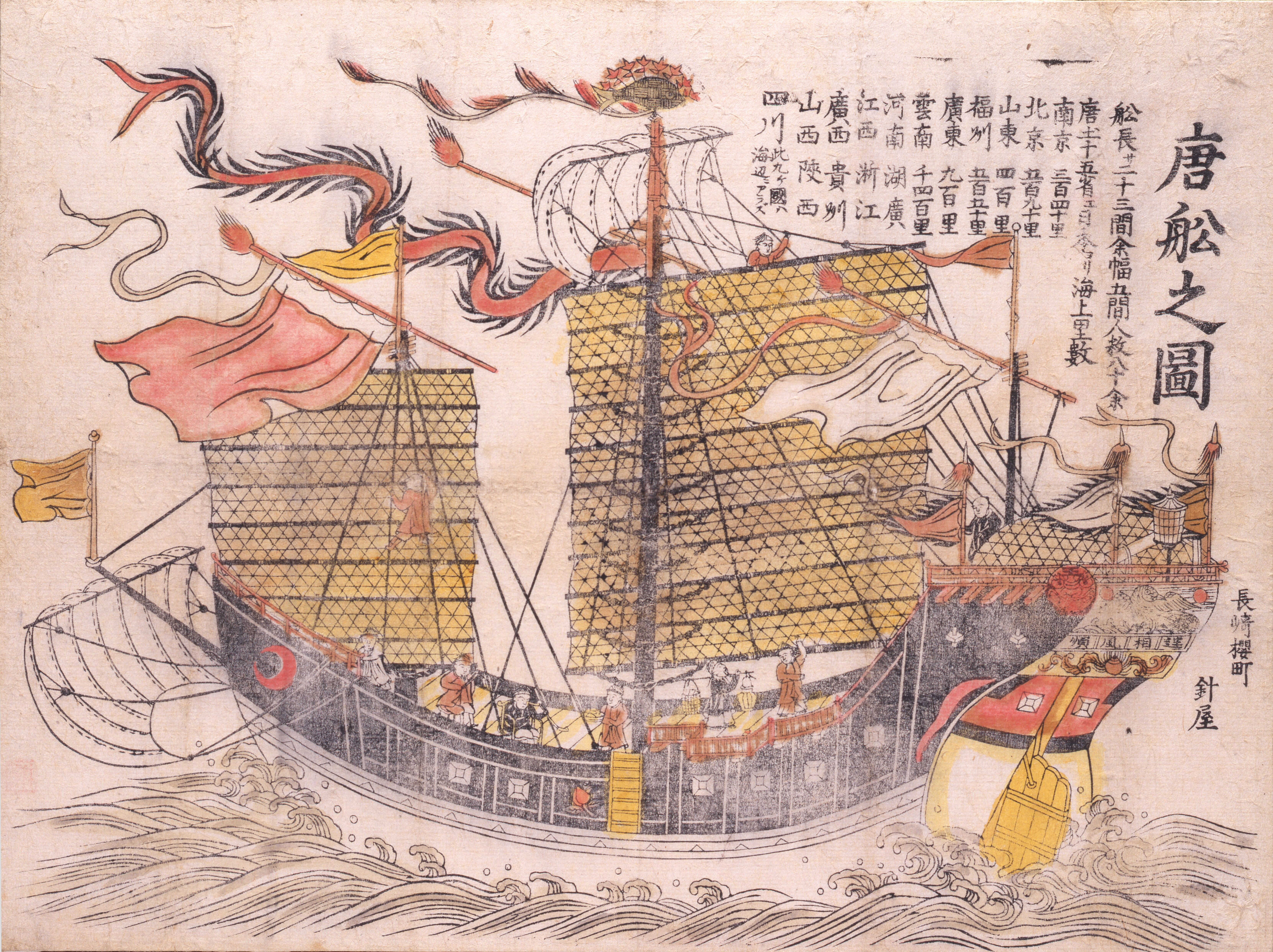 Chinese Ship, published, as per the inscription, by Hariya of Nagasaki Sakura-machi (長崎櫻町 針屋), Kobe City Museum, Kobe, Hyogo, Japan